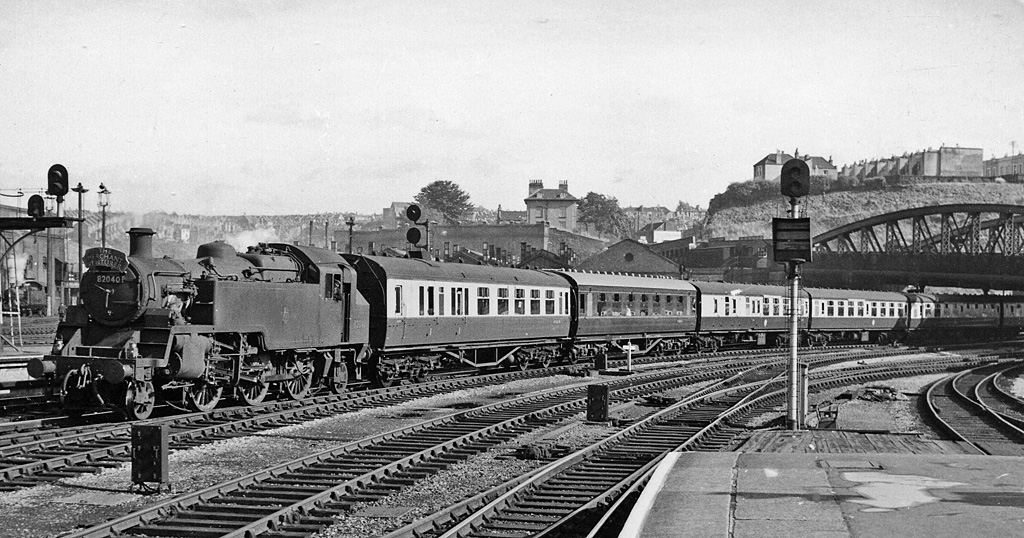 A Tank engine suffices to bring the Merchant Venturer into Bristol Temple Meads on its first stage from Weston-super-Mare. View southwards from the end of No. 6 Up platform, towards (to the right) Weston, Taunton and Exeter; ex-Great Western main line. A 'Castle' 4-6-0 will take over for the dash up to Paddington; appropriately, the headboard is already carried by BR Standard 3MT 2-6-2T No. 82040. The train is coming under the Bath Road Bridge and to the left can be glimpsed Bath Road Locomotive Depot. It was a great place to watch trains.